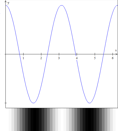 Example of a cosine function.